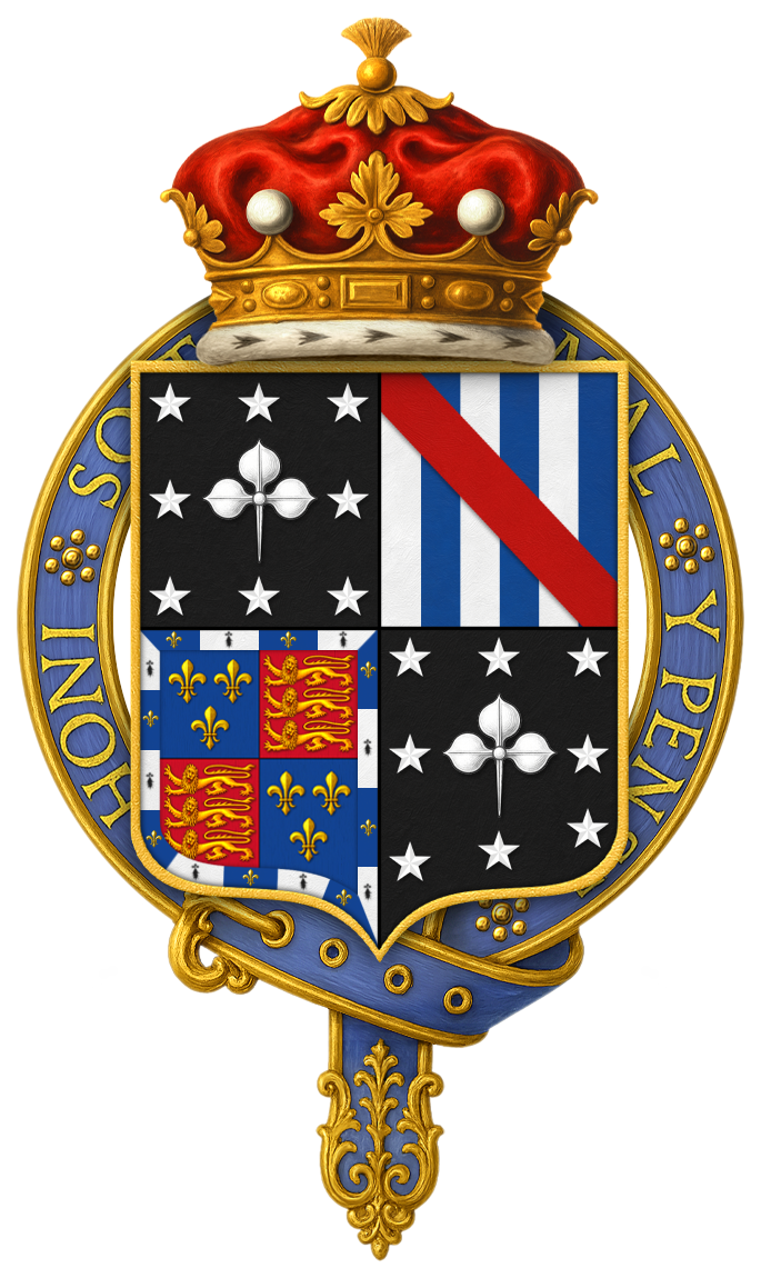 Shield of arms of Constantine Phipps, 1st Marquess of Normanby, KG, GCB, GCH, PC, as displayed on his Order of the Garter stall plate in St. George's Chapel.